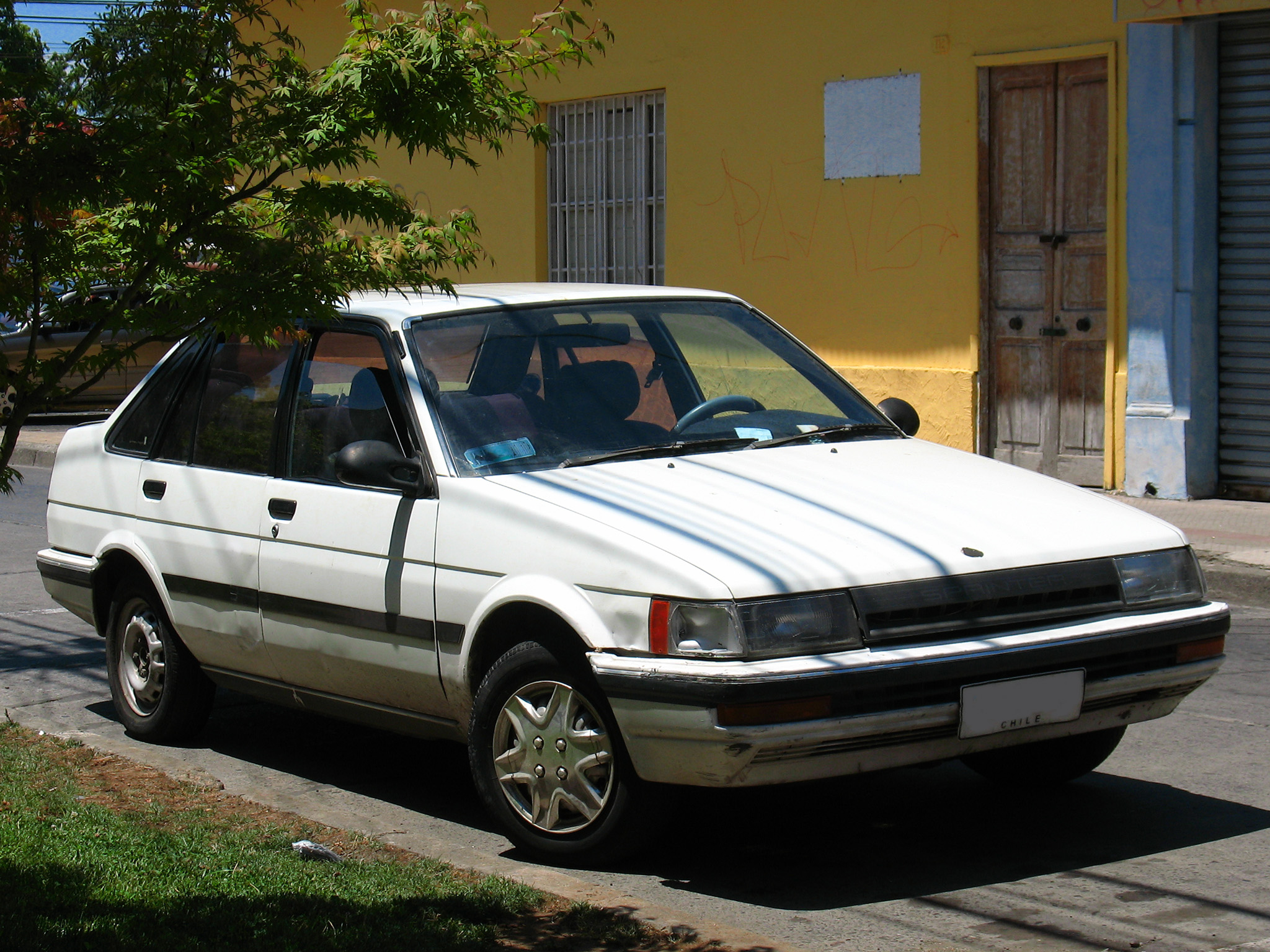 Toyota Sprinter 1.3 SE Saloon 1986